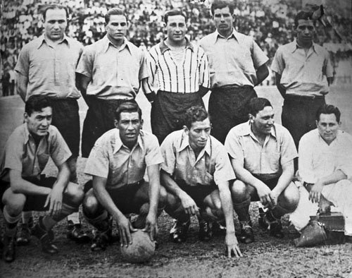 Belgrano de Córdoba team in 1933, which won the Liga Cordobesa de Futbol that year.